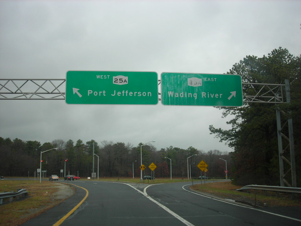 Suffolk County Route 46 (William Floyd Parkway) at the junction with New York State Route 25A in East Shoreham, New York.